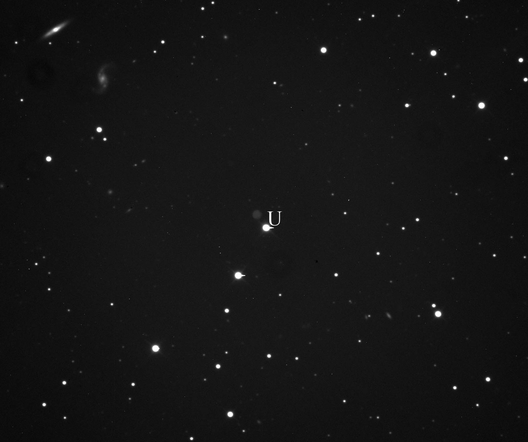 6 minute exposure of asteroid 375 Ursula with a 24" telescope. Ursula is apparent magnitude 11.4 in this image taken at 2009-09-24 06:30 UT. Ursula and the star TYC 581-36-1 (apmag 11.9) are slightly over-exposed resulting in the white streaks. To the upper left you can also see the galaxies PGC71209 (upper) and PGC71204 (lower). The two galaxies are roughly magnitude 15. The star bellow PGC71209 is about magnitude 17. The even dimmer star to the right of that star is about magnitude 18.6.